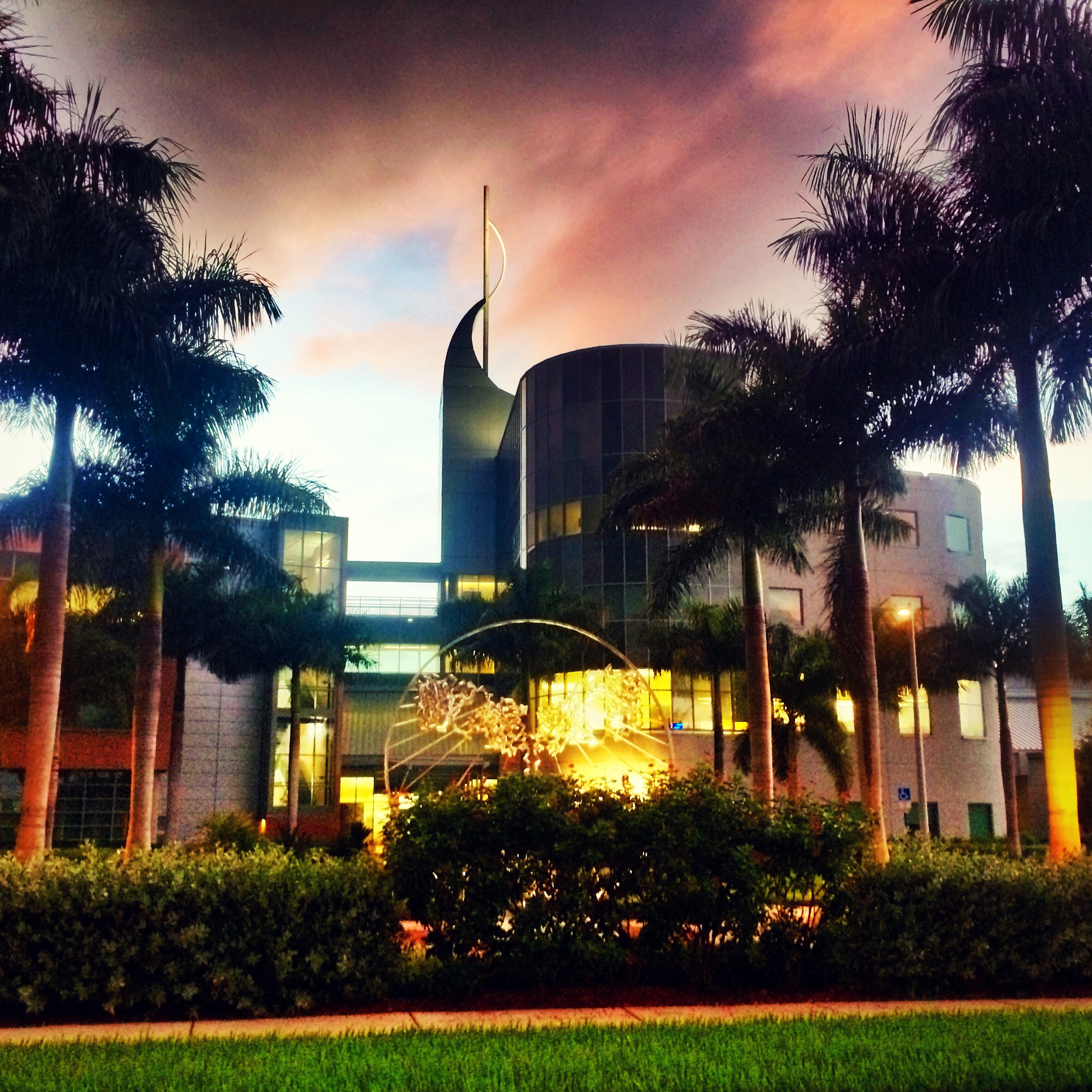 Building B serves as the headquarters of TSRI's Florida campus. It contains, among other facilities, an educational pavilion, a library, labs for researchers in Genomics and Protein Sciences, informatics and microscopy centers, and a large cafeteria.